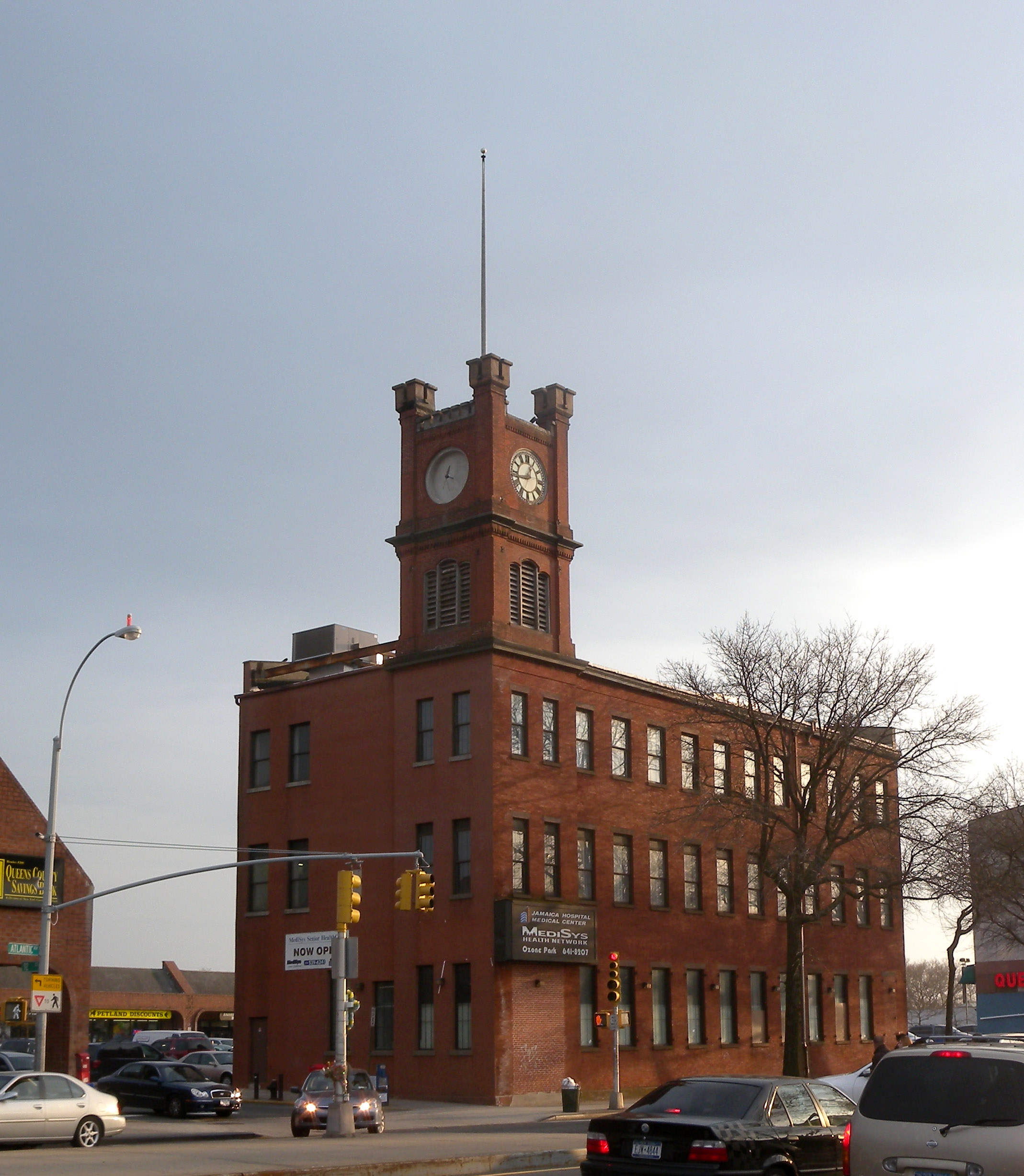 Looking southwest from inside an Atlantic Avenue bus at a medical clinic on a cloudy late afternoon.